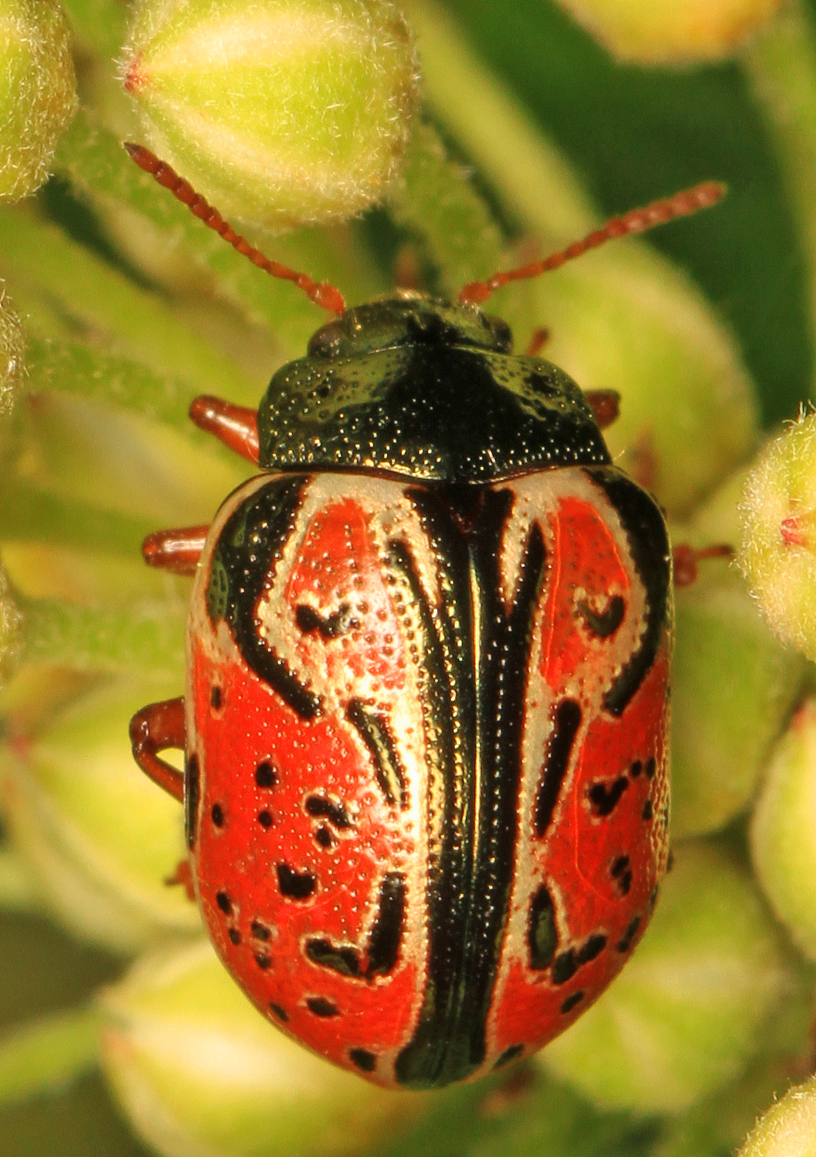 Ninebark Calligrapha Beetle - Calligrapha spiraea, Muddy Creek, Garrett County, Maryland